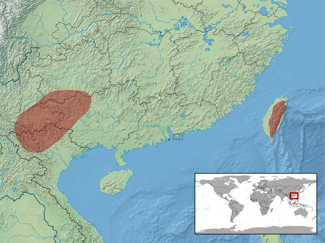 geographic distribution of Ophisaurus harti syn Dopasia harti (Native: China; Taiwan, Province of China; Viet Nam)